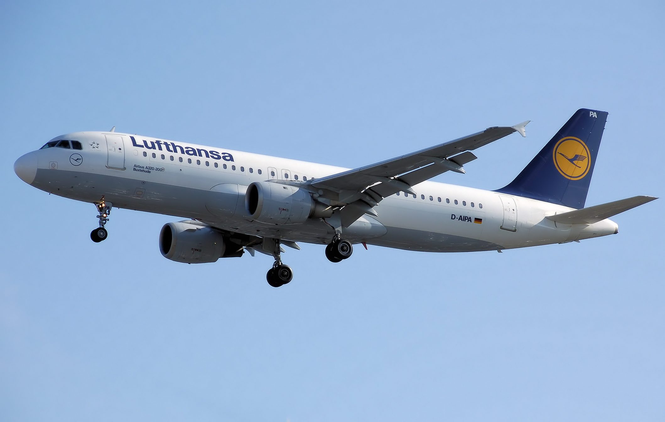 Lufthansa Airbus A320-200 (D-AIPA) lands at London Heathrow Airport.